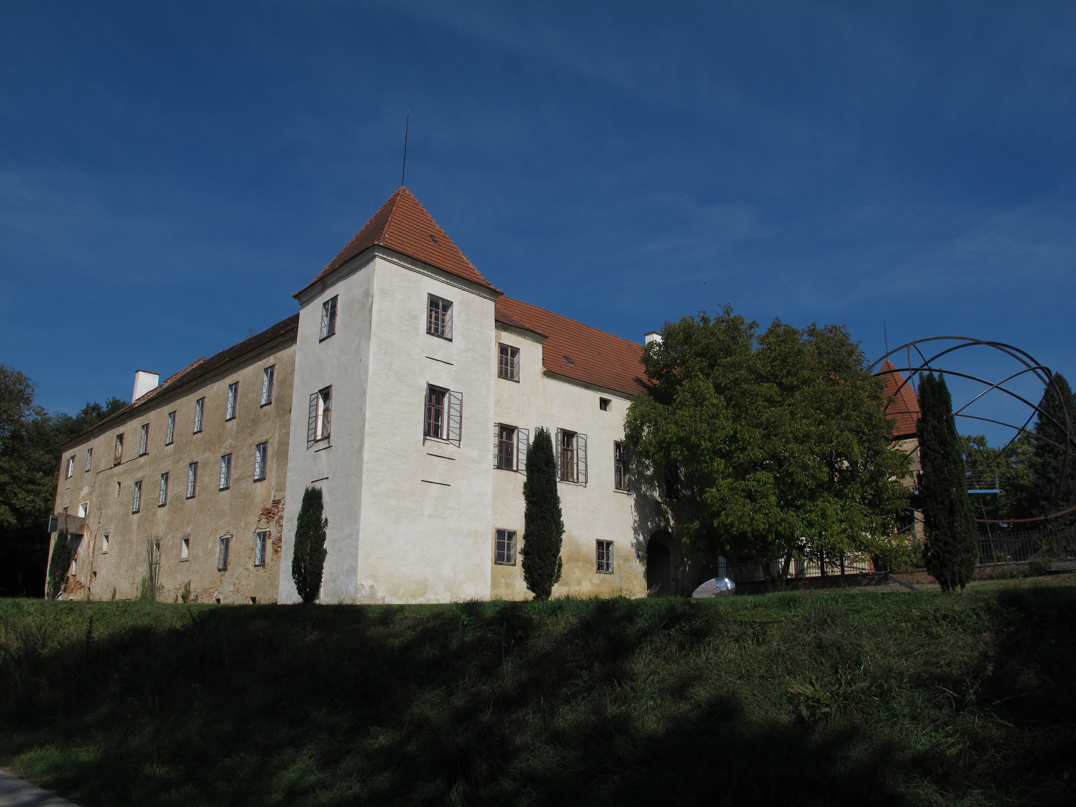 Schloß Kalsdorf